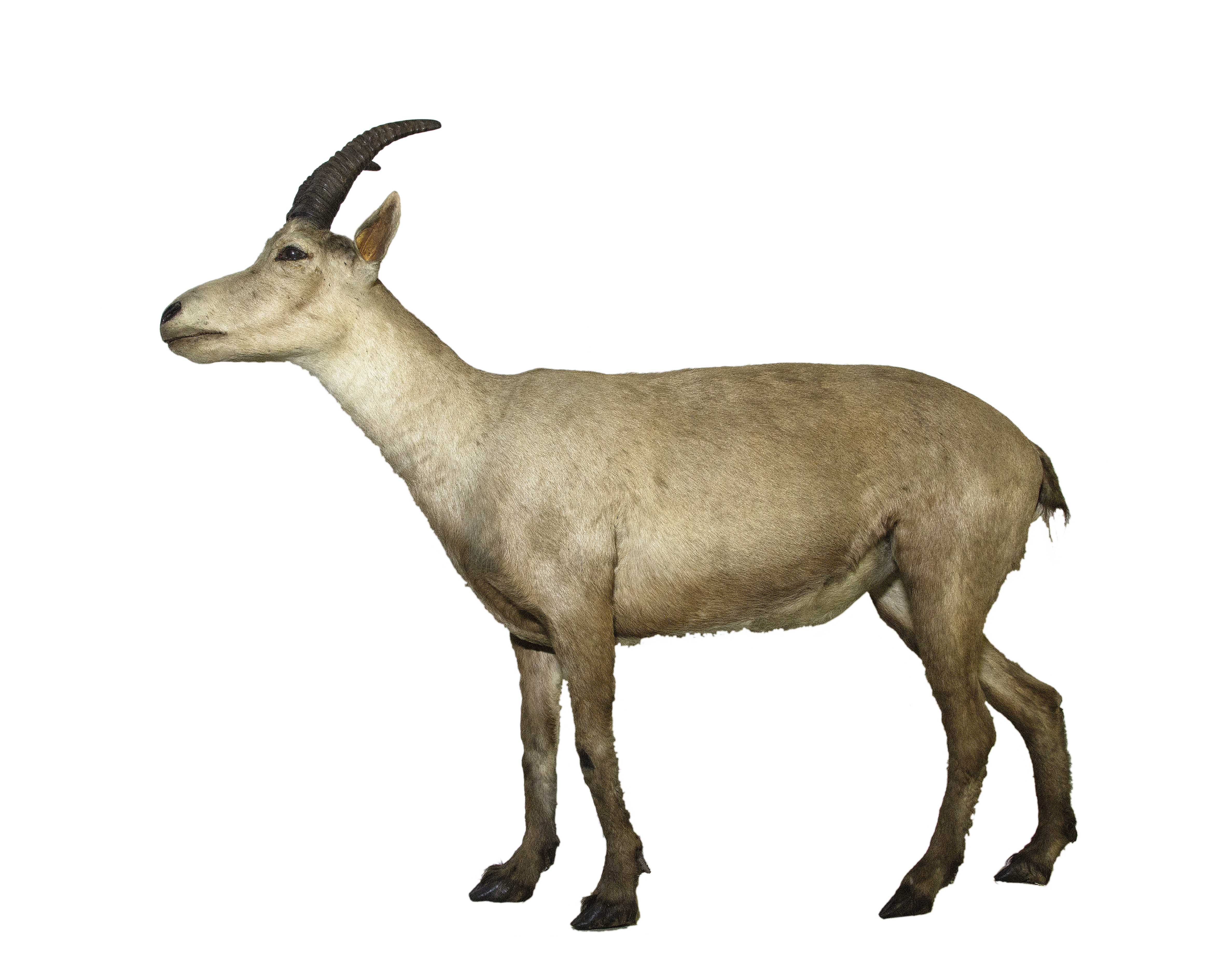 taxidermied specimen, Pyrenean ibex, size : 135 x 35 x 110 cm